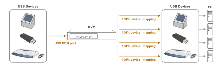 Diagram of Dynamic Device Mapping